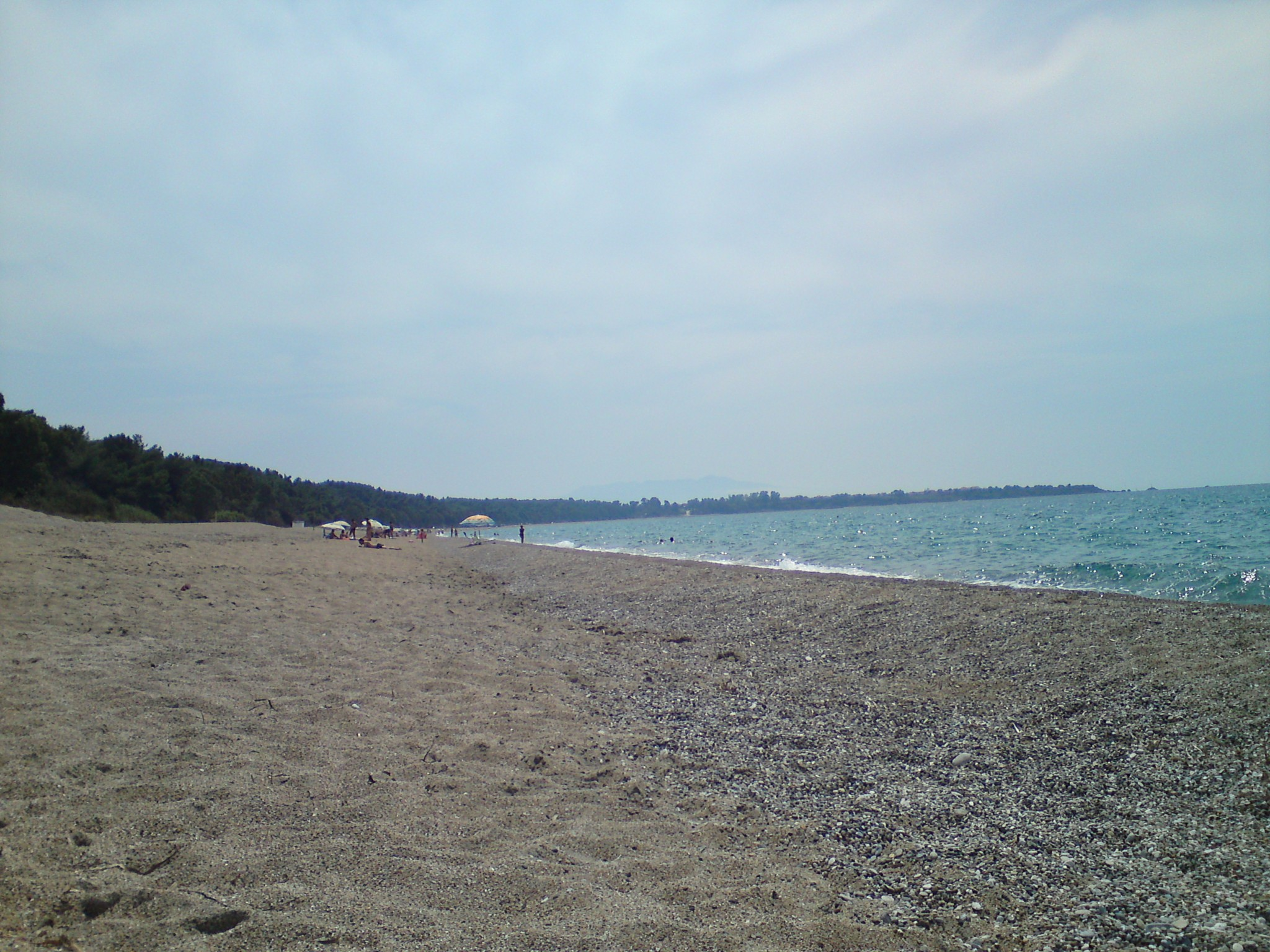 Monolithi Beach in Preveza prefecture, Greece